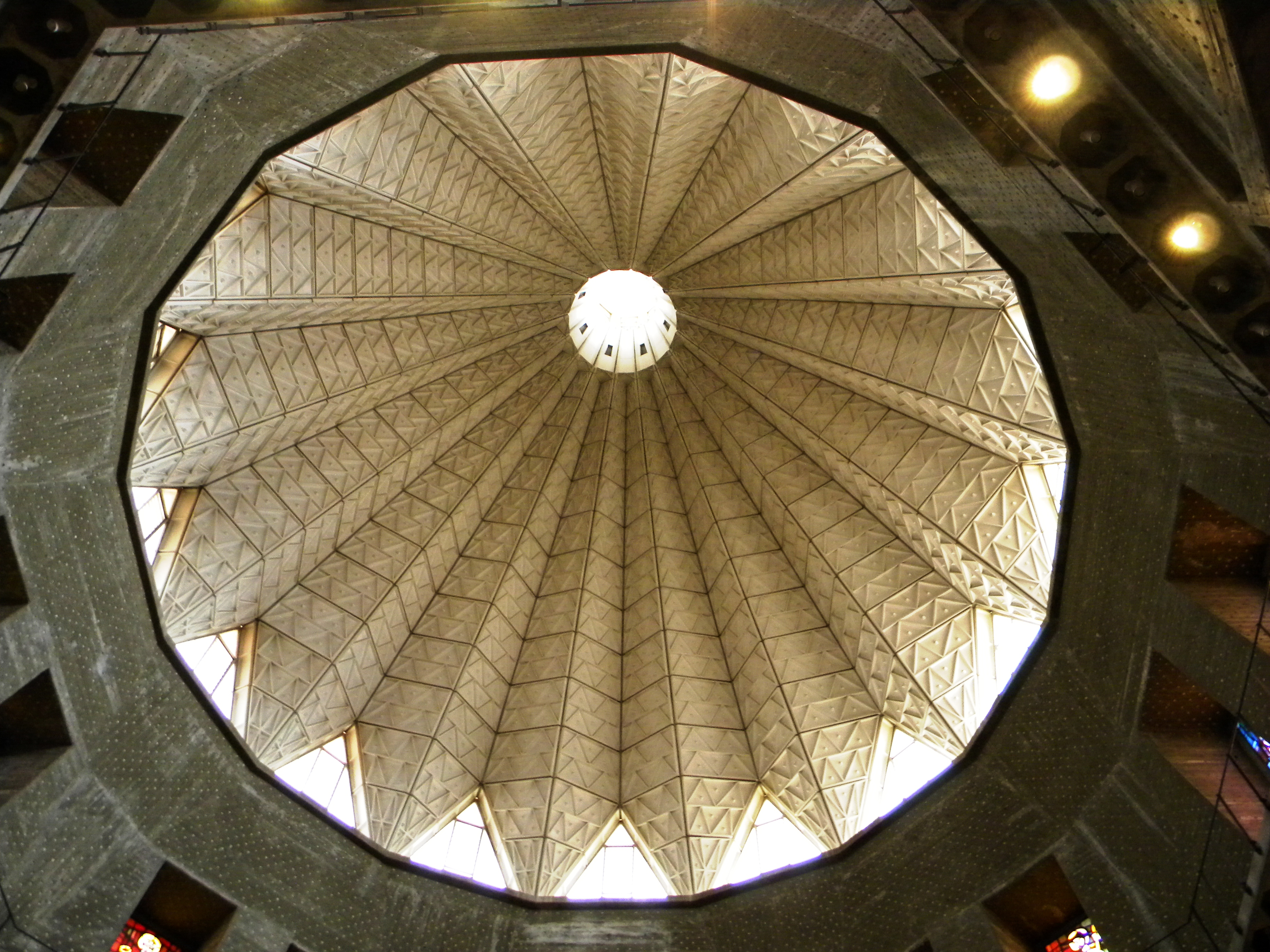 ISRAEL, Nazareth Catholic Church Annunciation (plaphon 9)(Heritage sites in Israel with unknown IDs)